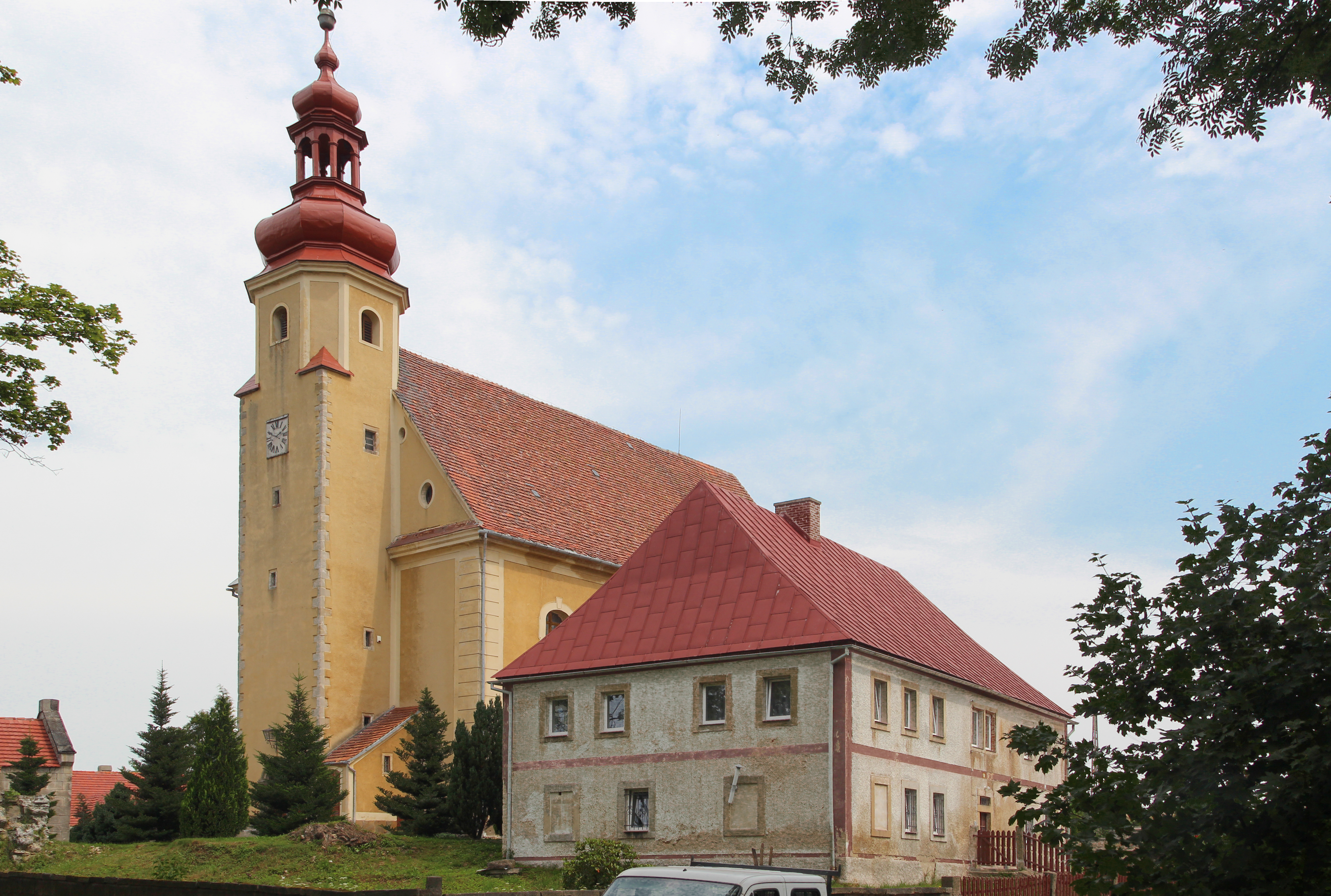 Church of St. Bartholomew in Wojciechów